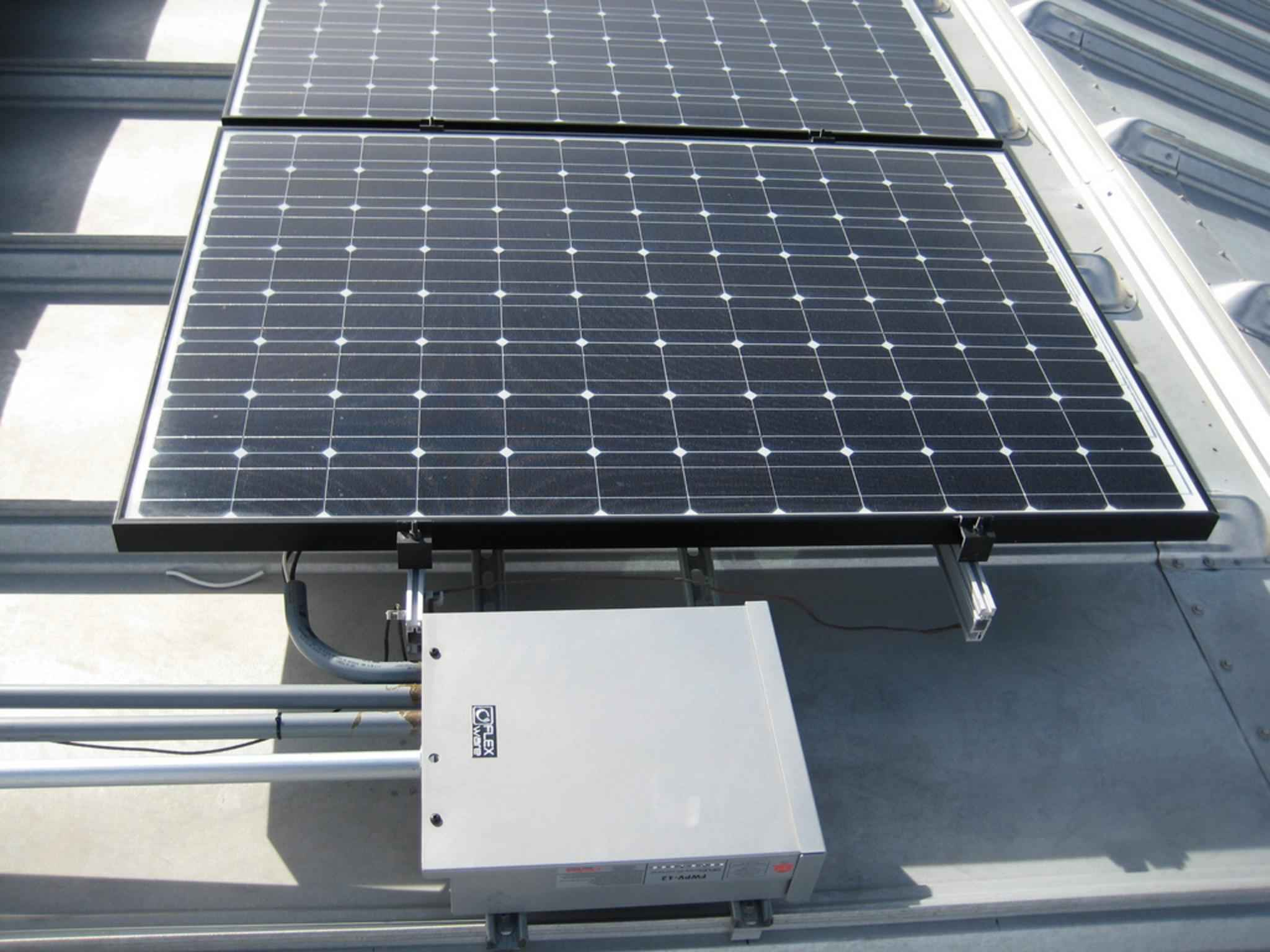 Image title: Solar panel Image from Public domain images website